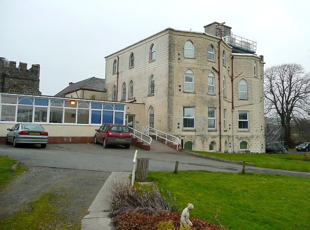 Cardigan Memorial Hospital This is based on a house of 1788 called The Priory, which replaced a house that was made from the monastic buildings and was the home for a time of the members of Parliament for the borough. The house of 1788-9 was designed by John Nash, and it was converted to a hospital by extending it in similar style and adding an extra storey in 1922, designed by J Teifion Williams. The ugly superstructure on the roof and the flat-roofed extension to the left have completely spoilt the appearance of the building. There is a little garden, complete with statuette, between the building and the river.